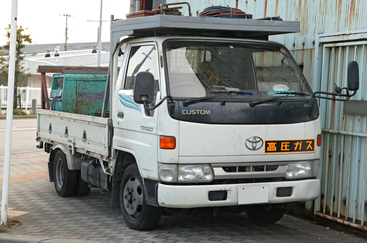 Toyota Toyoace truck ( U100 ) with Karu-garu Gate ( gas strut assistance gate ).